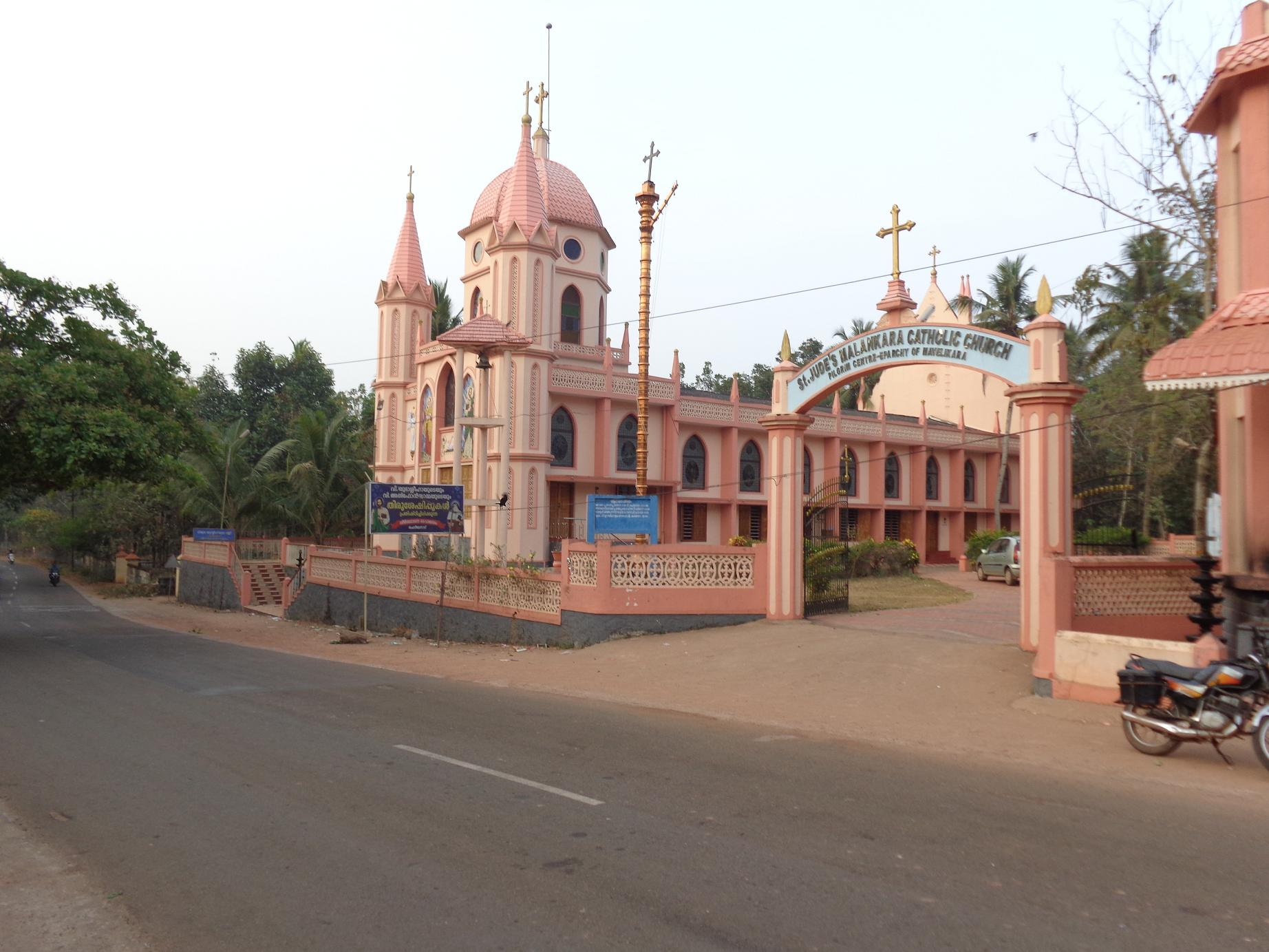 malankara catholic church, cheriyanaad